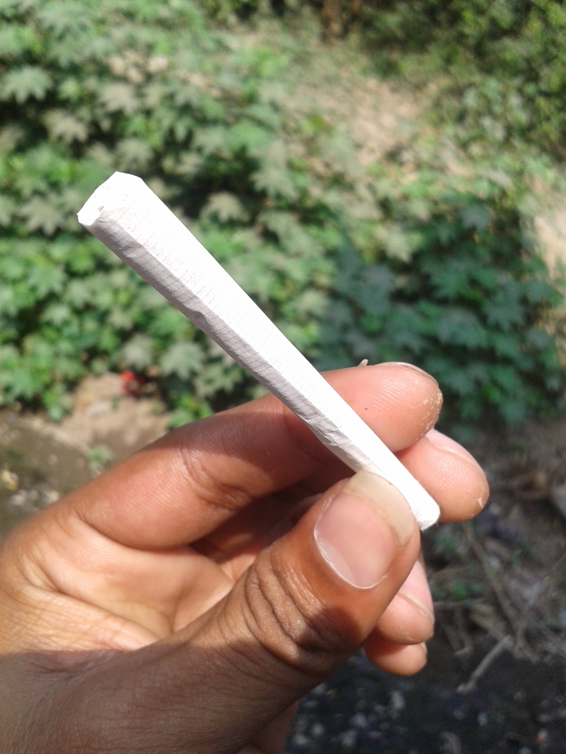 A joint made from marijuana